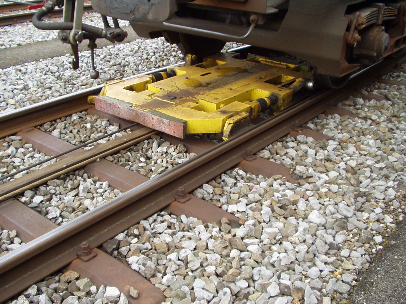 A siding with an automatic shunter in action.